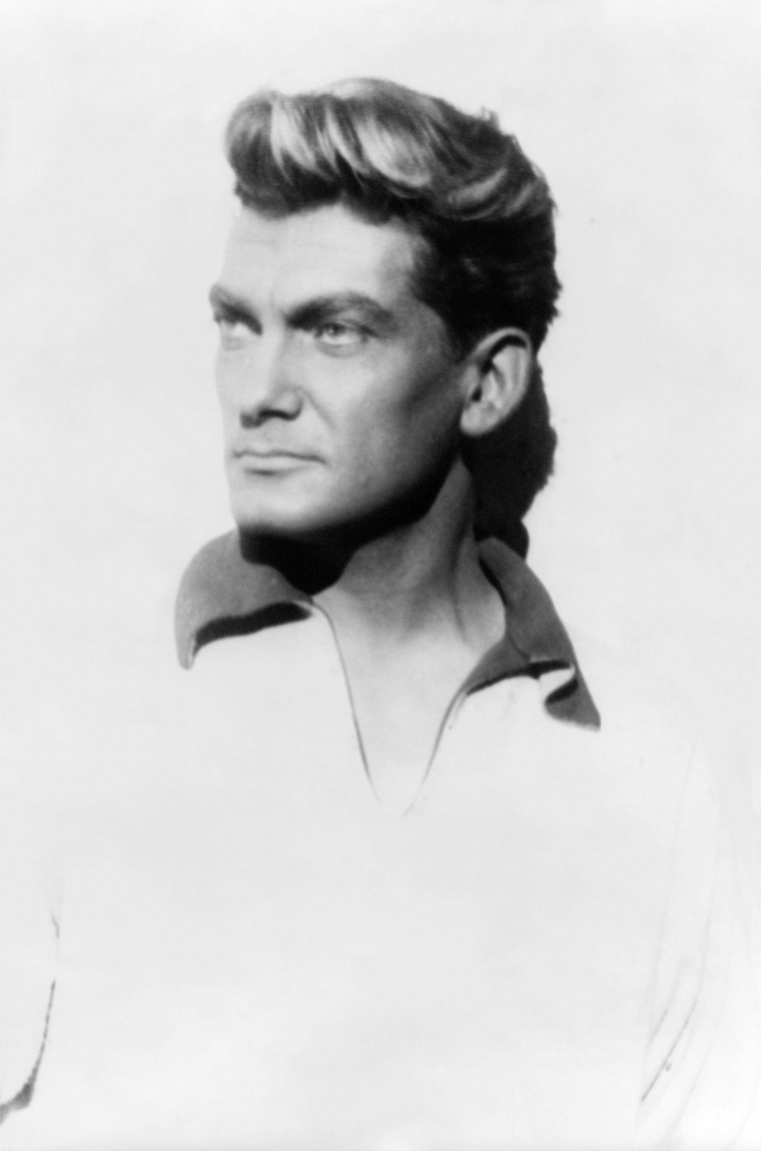 French Actor Jean Marais in Orphée. Photograph by Carl Van Vechten, 14 October 1949. From the Carl Van Vechten Collection at the Library of Congress More Carl Van Vechten photography | More portraits of actors [PD] This picture is in the public domain